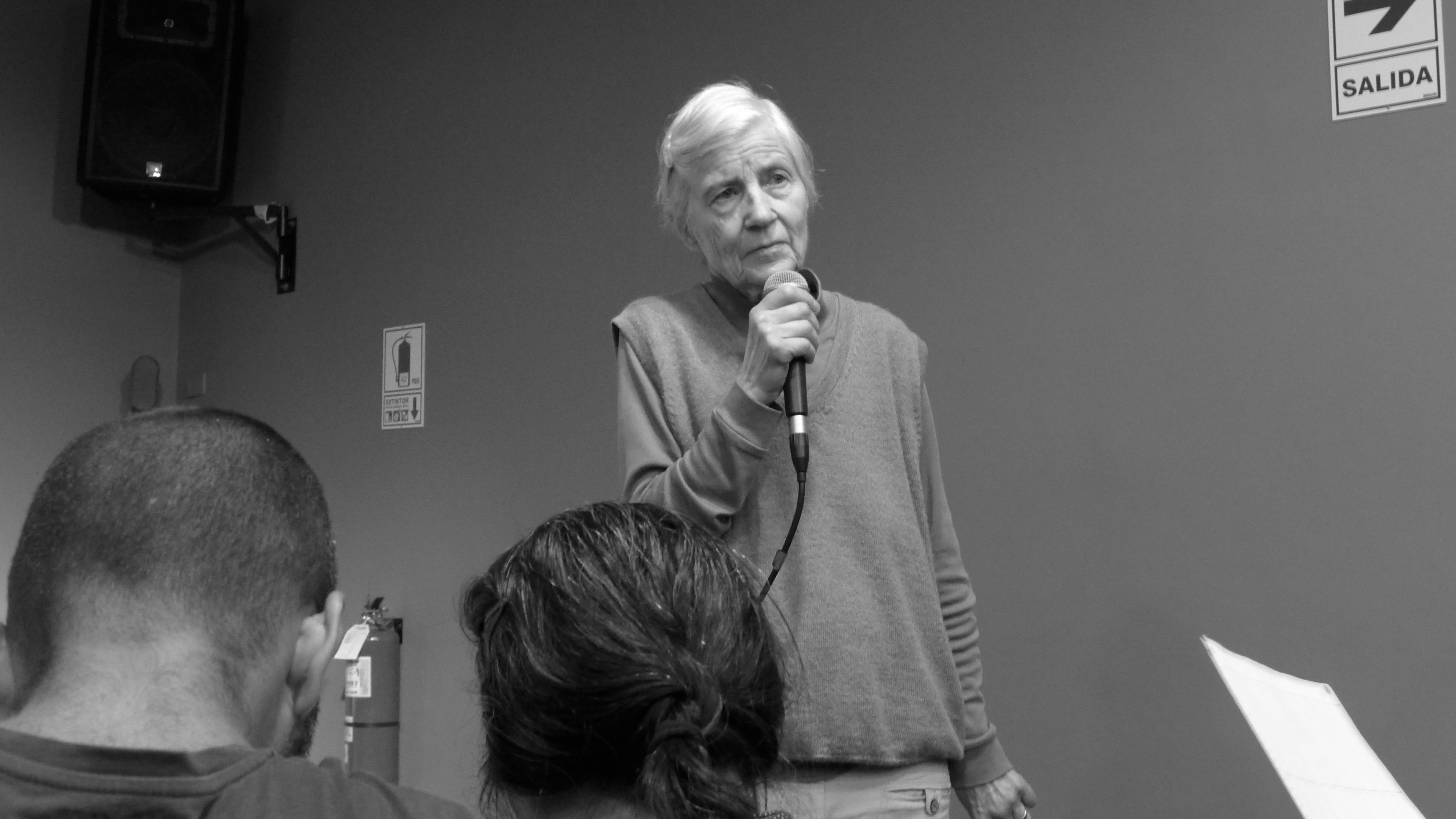 Rose Lowder durante una charla sobre su obra en la ciudad de Lima. Alianza Francesa de Miraflores.